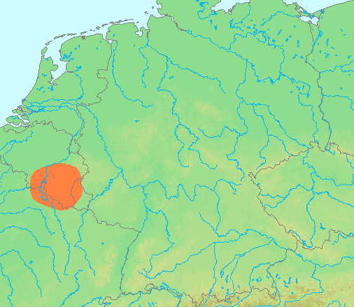 Locator maps for mountain ranges : Location Ardennes.PNG